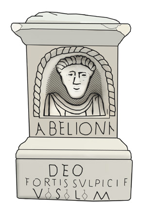 Gallo-roman votive altar, dedicated to the god Abellio, found in the village of Garin (Haute-Garonne, France). Now in Musée Saint-Raymond, Toulouse.